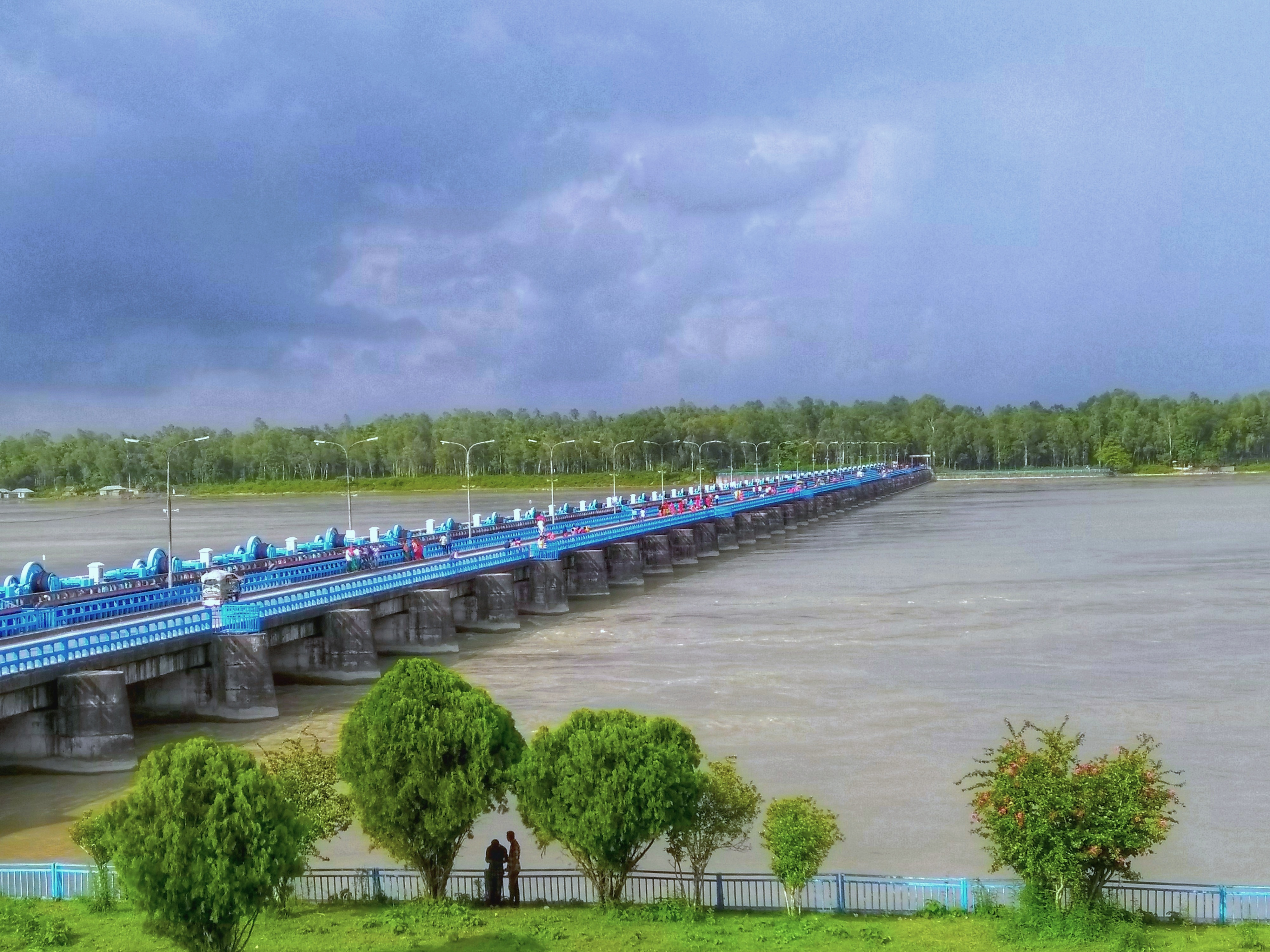 Tista Barrage, Hatibandha, Lalmonirhat.